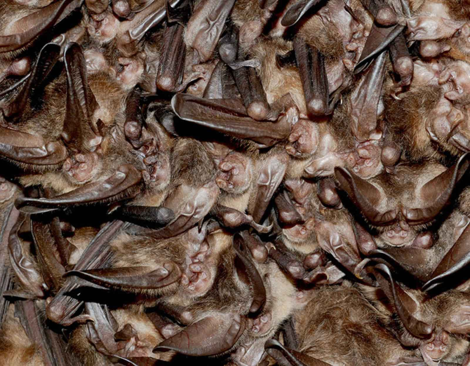 Image title: Cluster of hibernating virginia big eared bats Image from Public domain images website